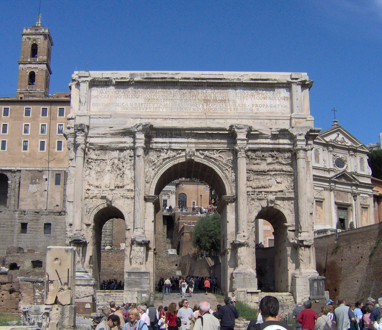 Arch of Septimius Severus